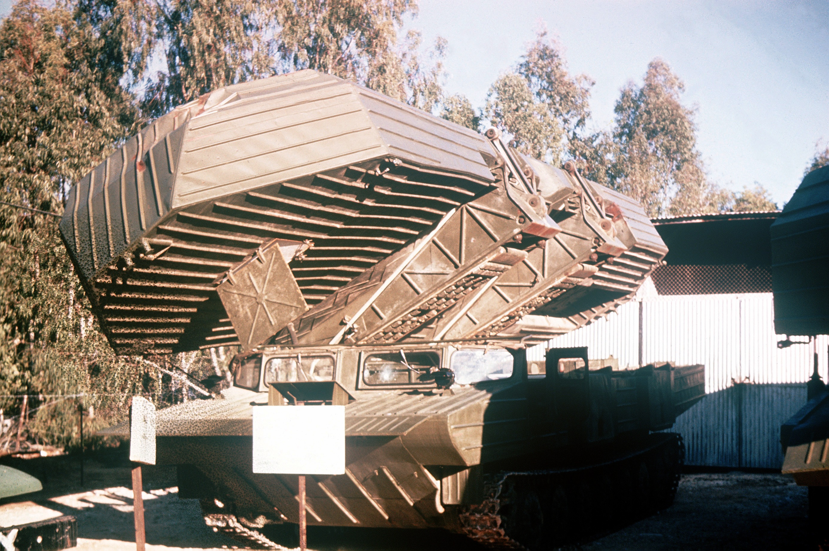 A left front view of a Soviet-built GSP heavy amphibious ferry with its pontoon partially deployed.